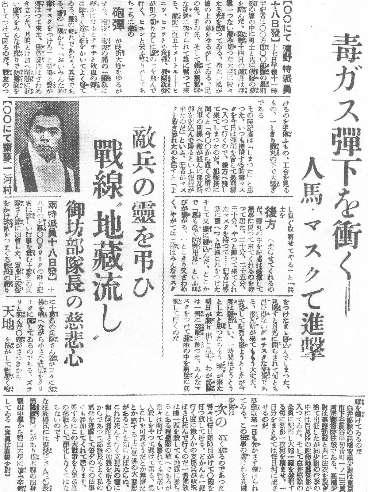 A newspaper article on a Chinese poison gas attack during the Battle of Shanghai. Attack under poison gas shells - men and horses advanced wearing masks., 18 October, Correspondent Yoshio Hamano